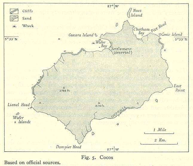 A map of Cocos Island (Isla del Coco), Costa Rica. The caption of the map is: "Fig. 5. Cocos / Based on official sources."